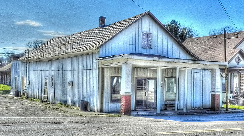 On the National Register of Historic Places and once the Miners' Supply store that also carried groceries, the structure is along OH93 in Coalton, Ohio. The now-vacant structure is historic because it was the first business to use a cash register. "The National Cash Register Company was founded by John H. Patterson in Dayton, Ohio. Patterson (1844-1922), hoping the machines could save him money by reducing accounting errors in his supply business, purchased the patent rights to the cash register from James Ritty in 1884. Within six months, he reduced his debt and showed a profit. Patterson built the first National Cash Register factory on his family's farm in Dayton in 1888. By the turn of the century, the company had become one of the largest employers in Dayton. Known for his strict training program for salespeople and health and education programs for employees, Patterson was closely involved in the daily lives of many of his workers." Creator Ohio Federal Writers' Project